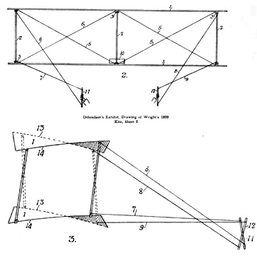 Diagram of Wright brothers' 1899 kite, showing wing bracing and strings attached to hand-held sticks used for warping the wing while in flight. Used in evidence circa 1920 in a patent lawsuit.